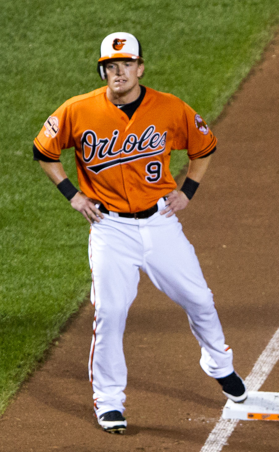 Nate McLouth